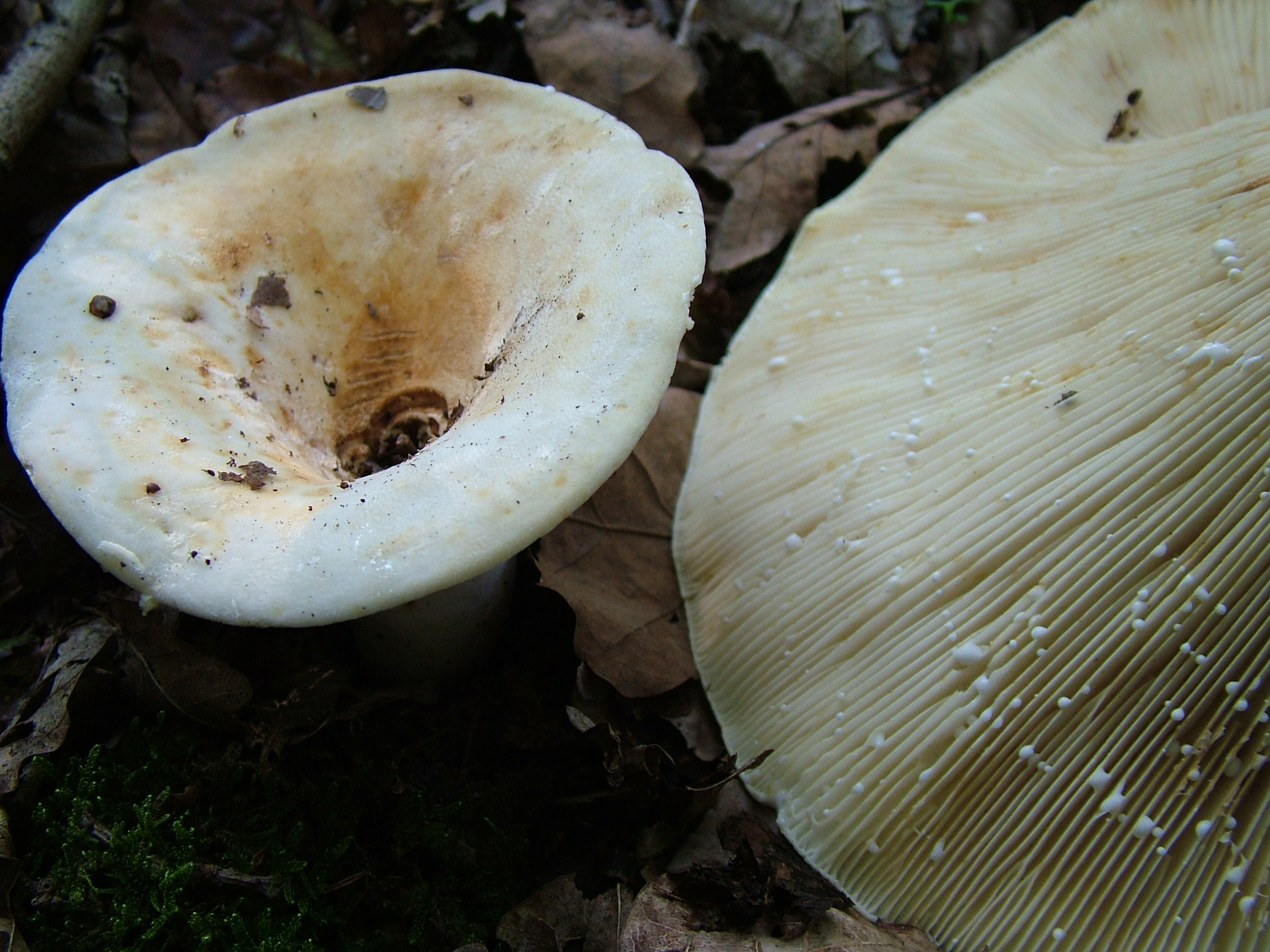 two specimen of Lactarius vellereus, showing the white latex and colour variety of the basidiocarp